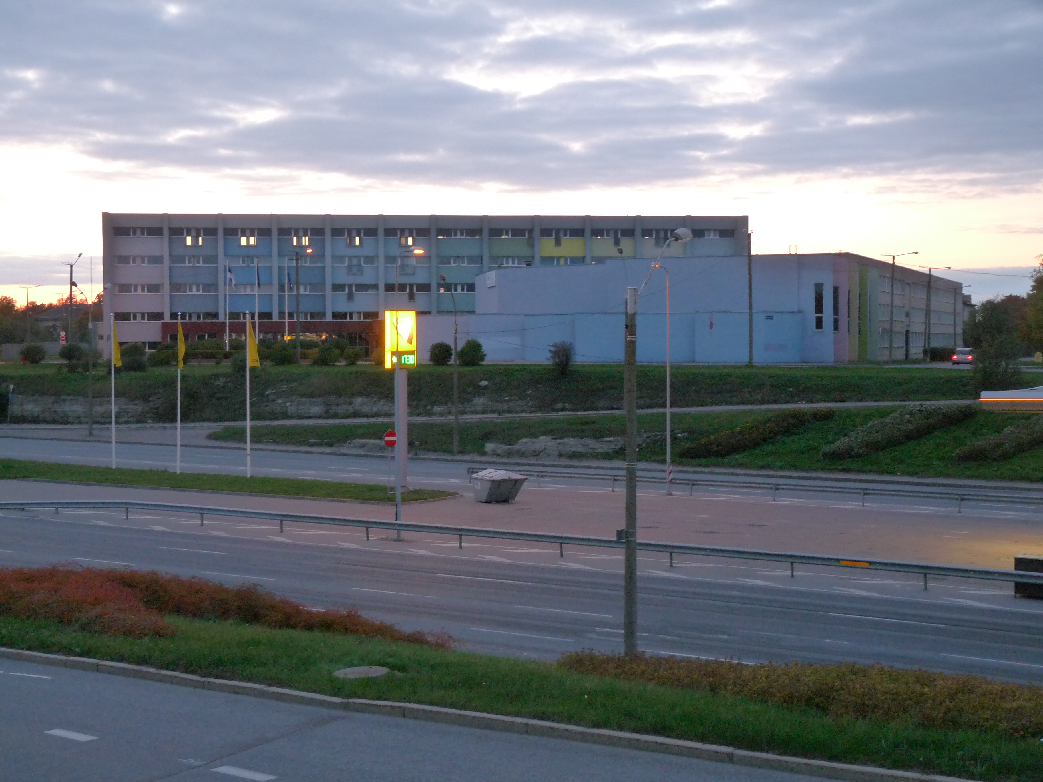 Tallinn Lasnamäe Mechanical School. During USSR times was named "Vocational school #21" During 1990's and 2000's was strictly critisied by society cause of too low educational level (this vocation school accepted youths with too bad examination of the basic school). During 1990's employers specified in advertisements, that diplomas of this school is not valid as qualification for candidating to their enterprises.